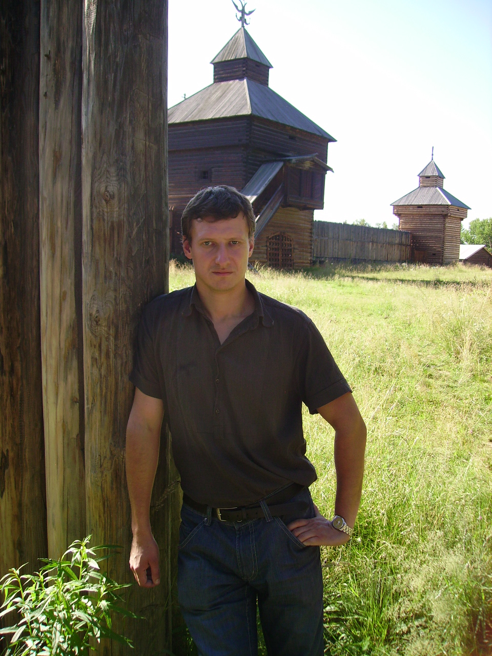 Stanislav Markelov (1974-2009), a Russian human rights lawyer in Talcy - architectural museum near Baikal. Siberian Social Forum, August 2008.